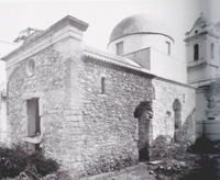 Church Messina Chiesa di San Tommasso